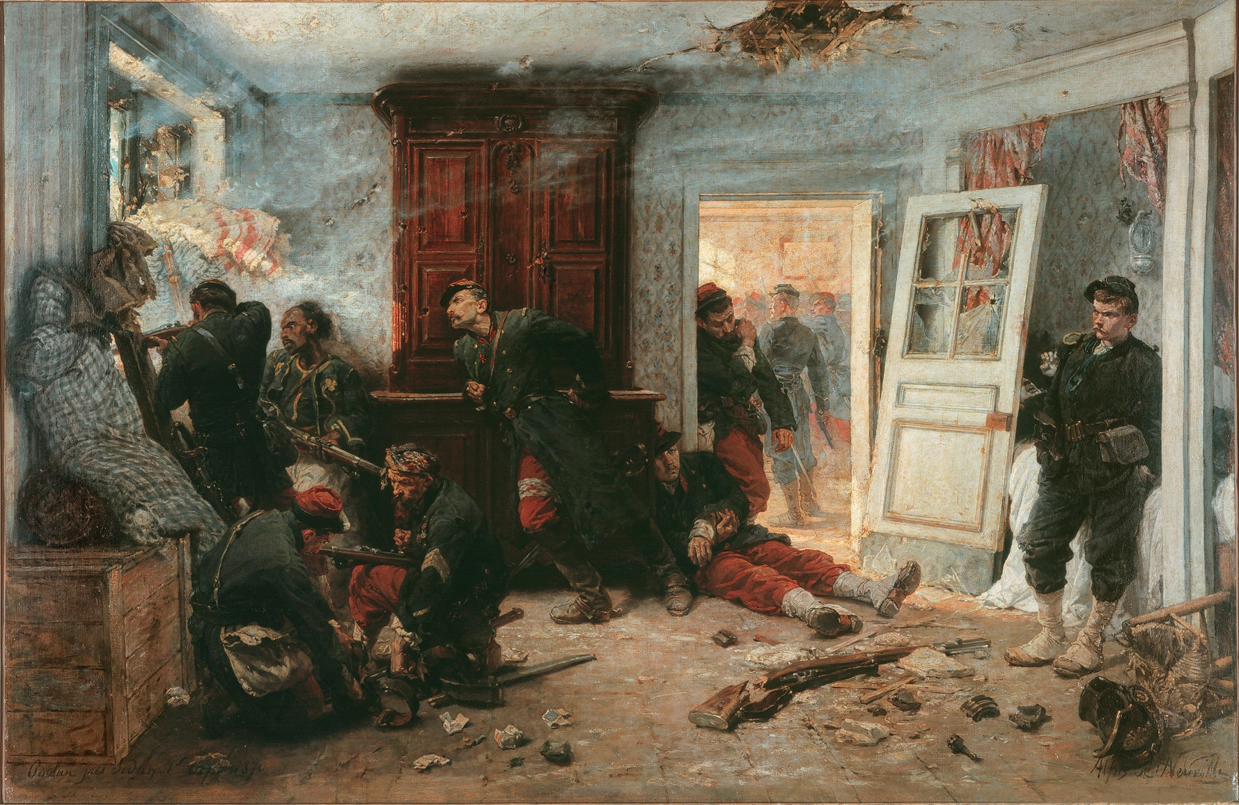 Painting by Alphonse-Marie-Adolphe de Neuville, 1873: Les dernières cartouches (The last cartridges). French snipers ambush Bavarian troops, hiding in the l'Auberge Bourgerie in Bazeilles, prior to the Battle of Sedan during the Franco-Prussian War in 1870.